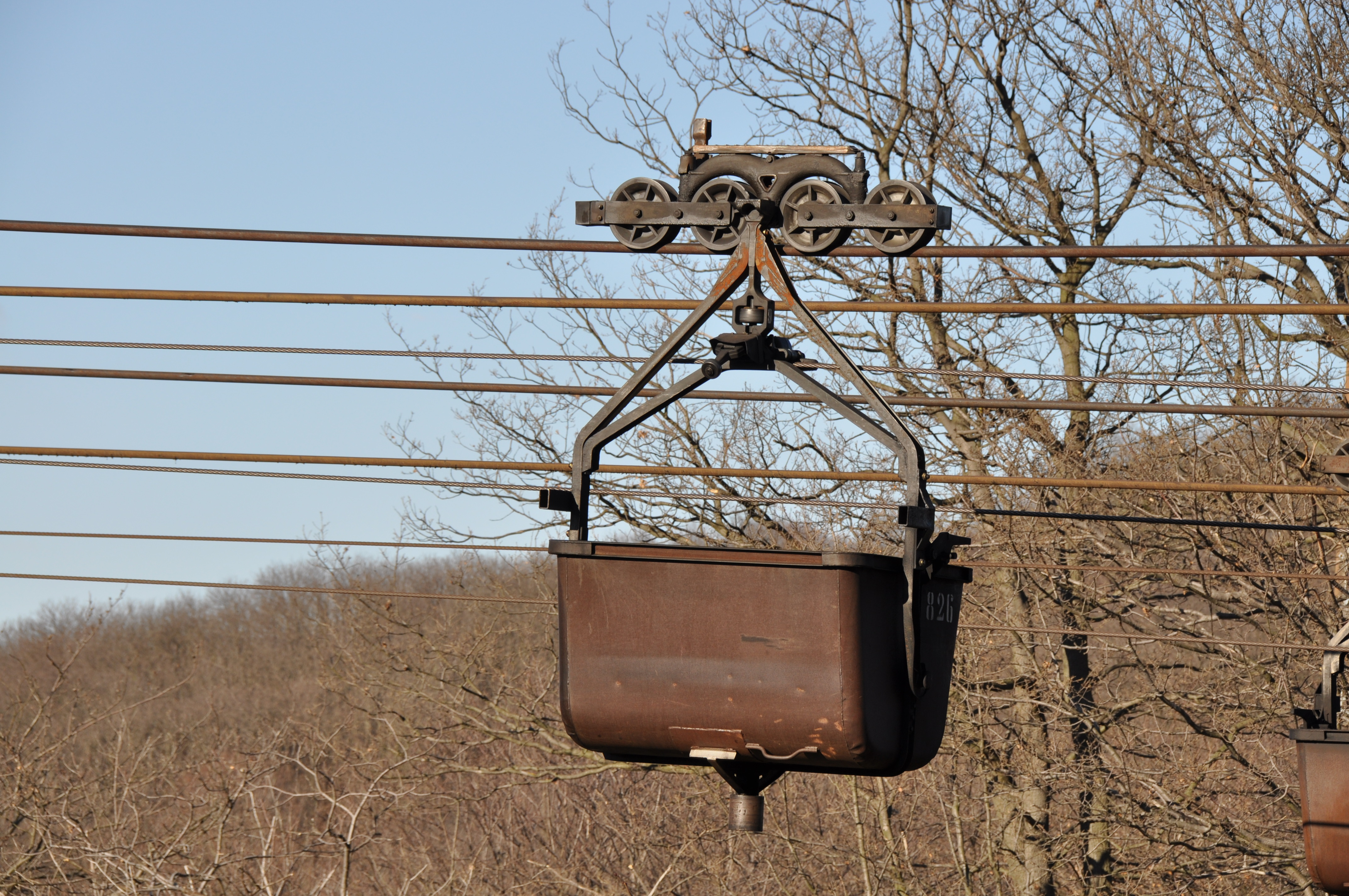 Ropeway Conveyer Savona-San Giuseppe Car